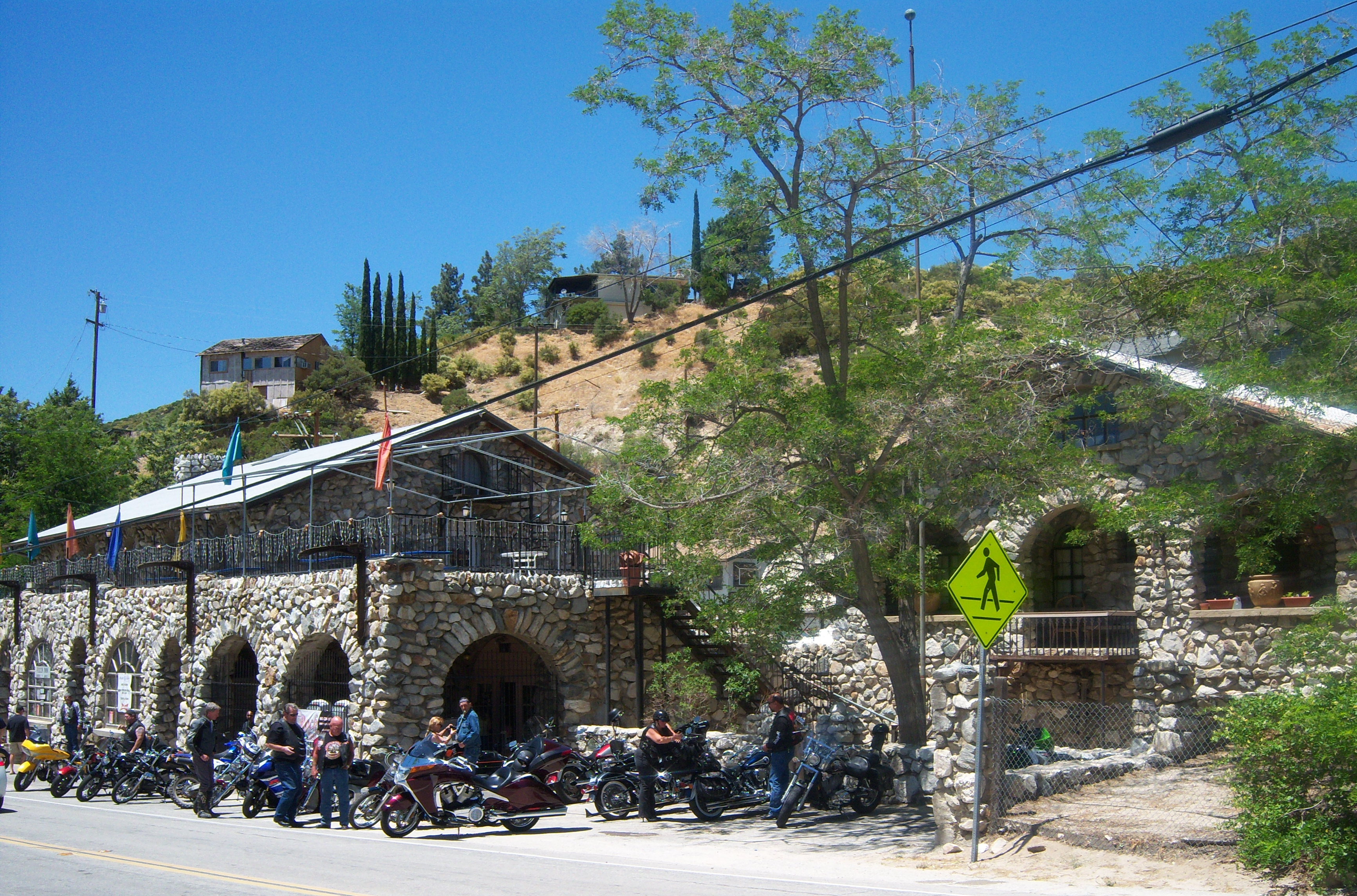 Historic Rock inn For almost 80 years the Rock Inn has served travelers lucky enough to find their way to their historic location on Elizabeth Lake Road in Lake Hughes, CA. Built in 1929 on the main roadway between Los Angeles and Bakersfield, it was a favorite hideaway retreat for many movie stars in the early days of Hollywood. The huge rock fireplace still warms guests on chilly days and three rustic rooms are available for rent even today. Leona Valley Cherry Picking